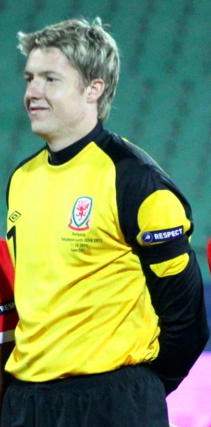 Wayne Hennessey, Wales goalkeeper, 2011